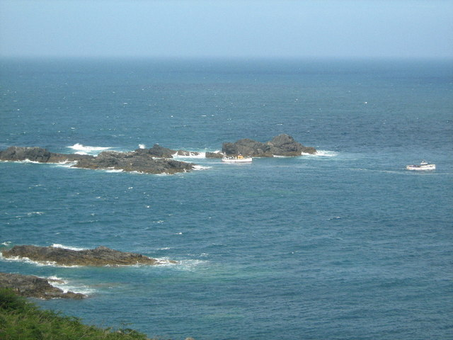 The Carracks